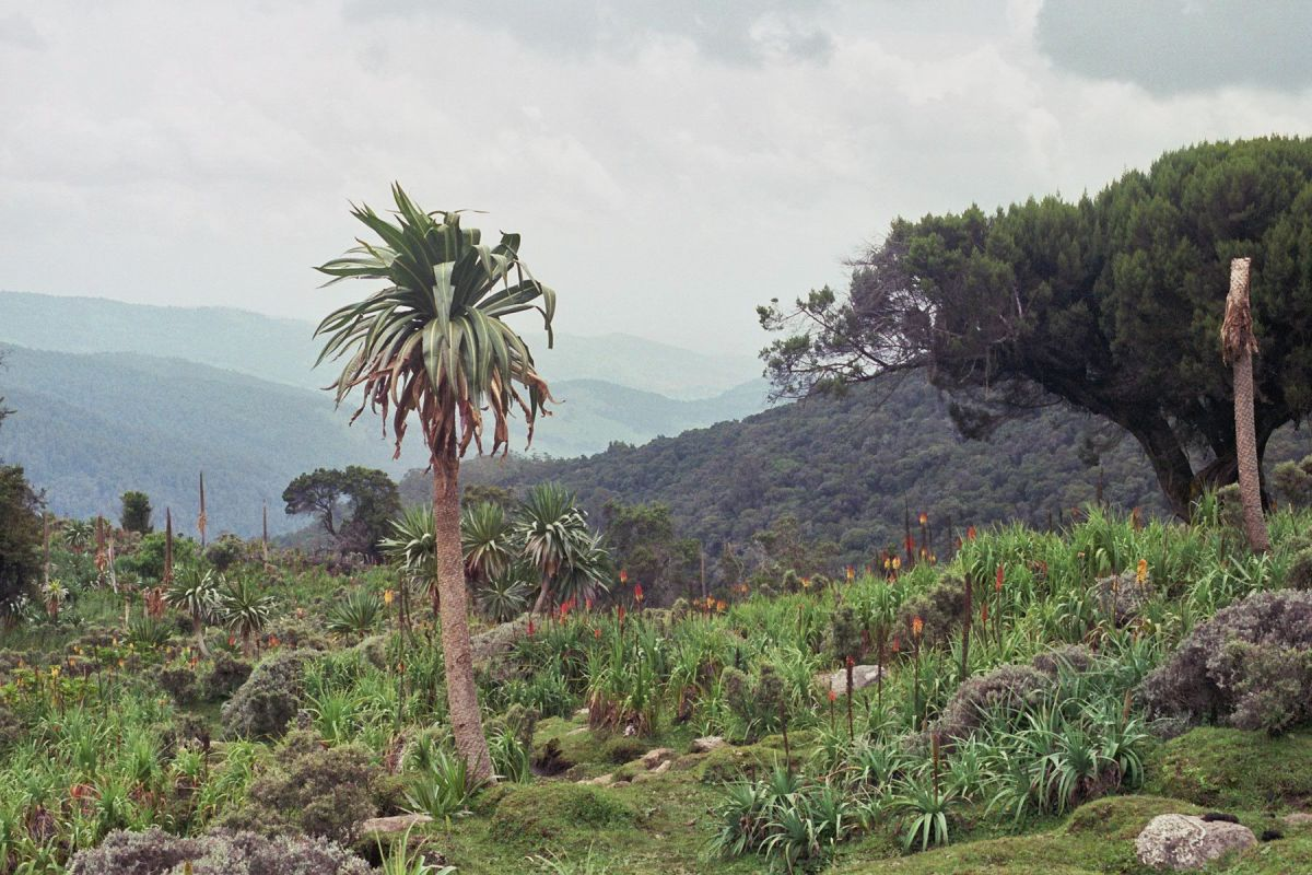 Bale Mountains, Ethiopia